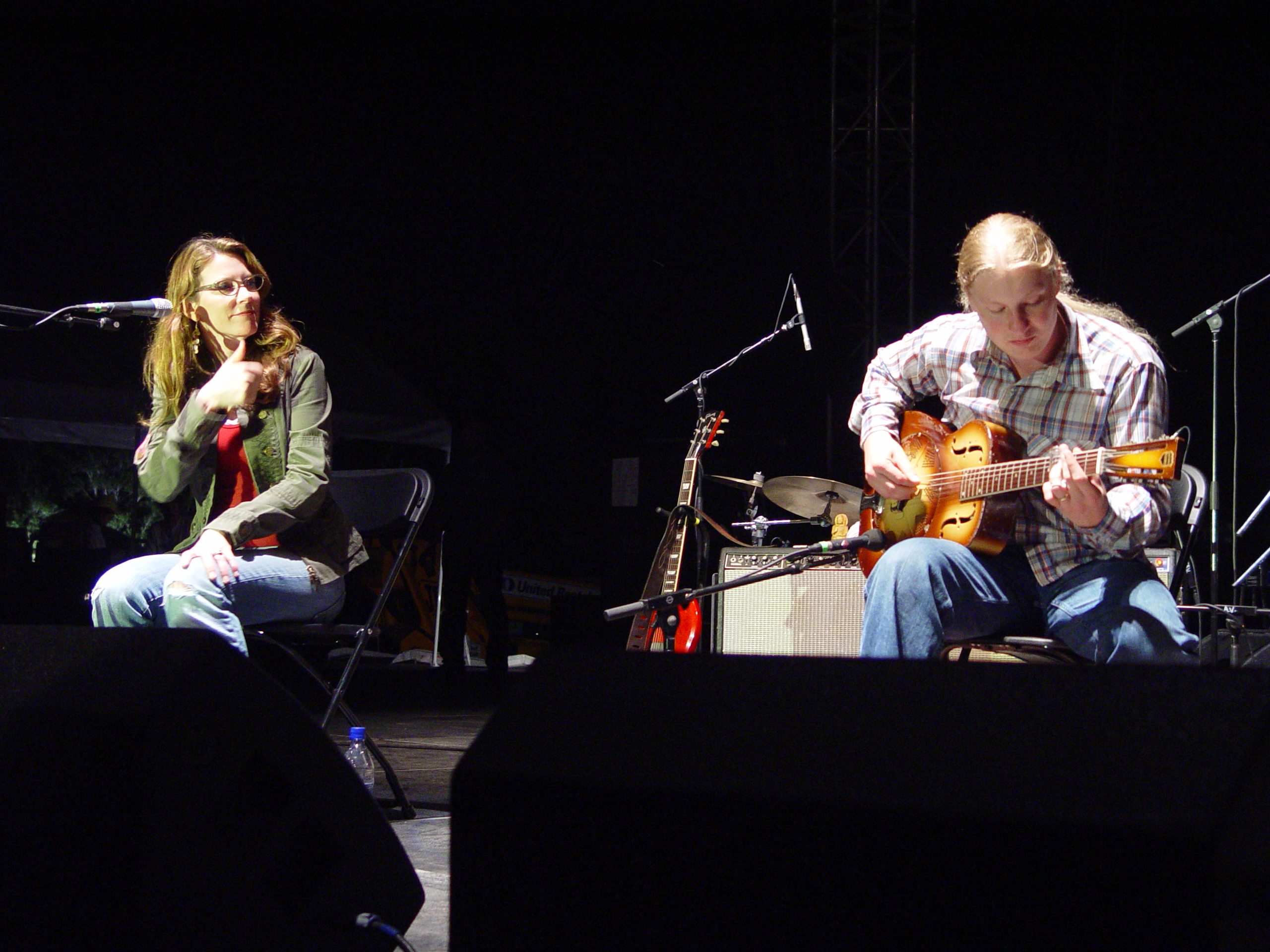 Susan Tedeschi and Derek Trucks